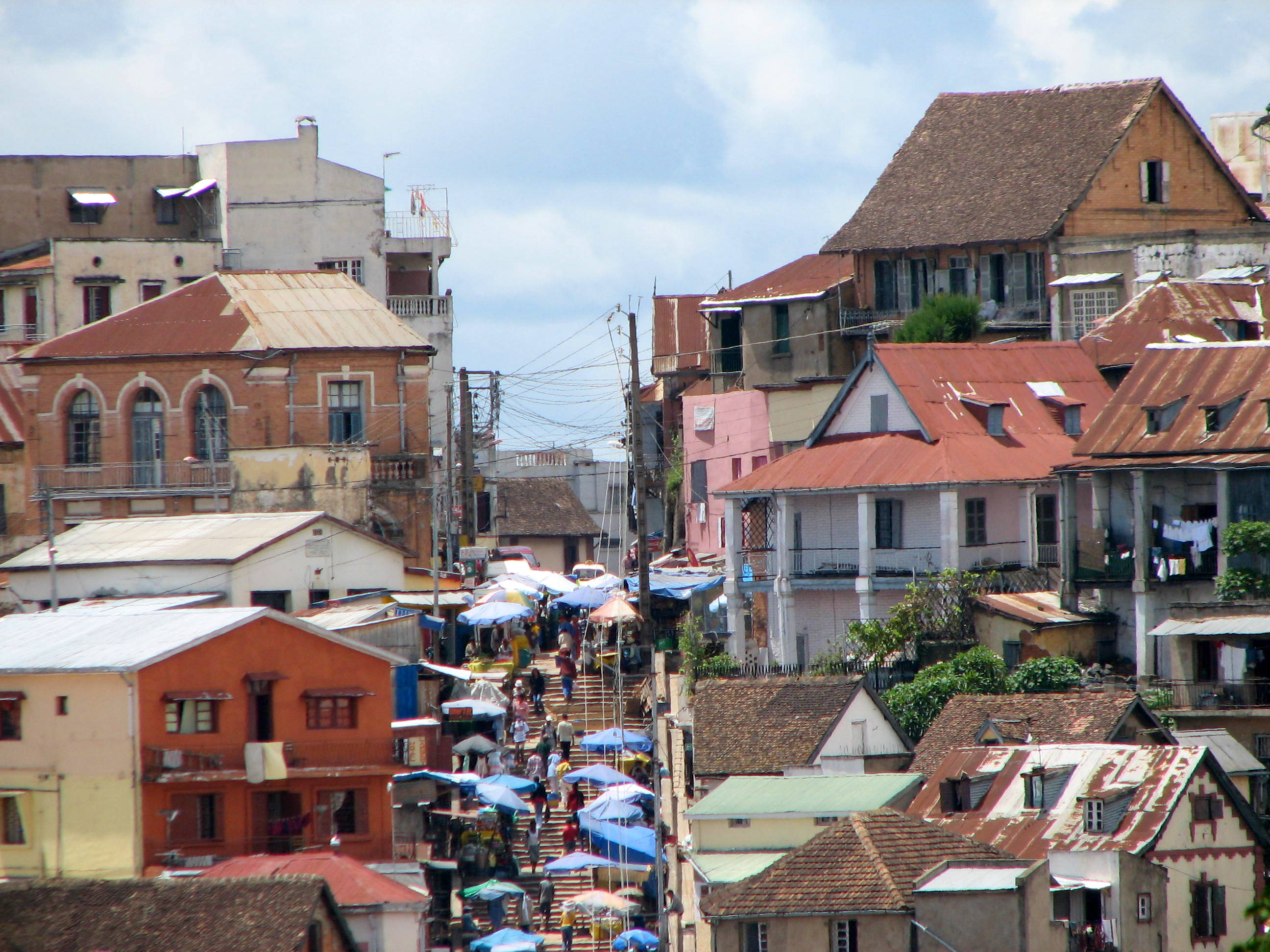 Stairs in Antananarivo, Madagascar